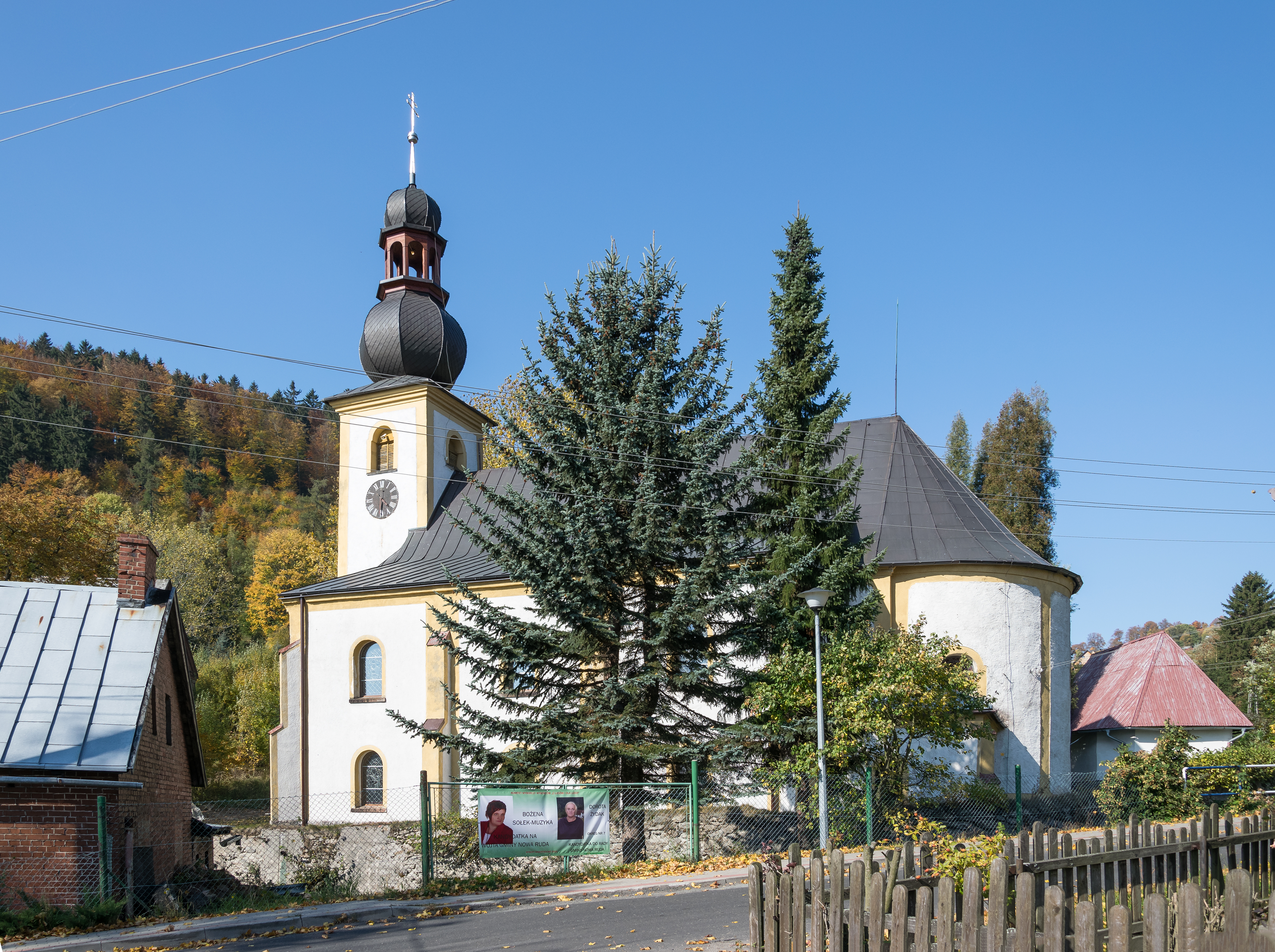 Saint Martin church in Sokolec Wikidata has entry Q2298083 with data related to this item.